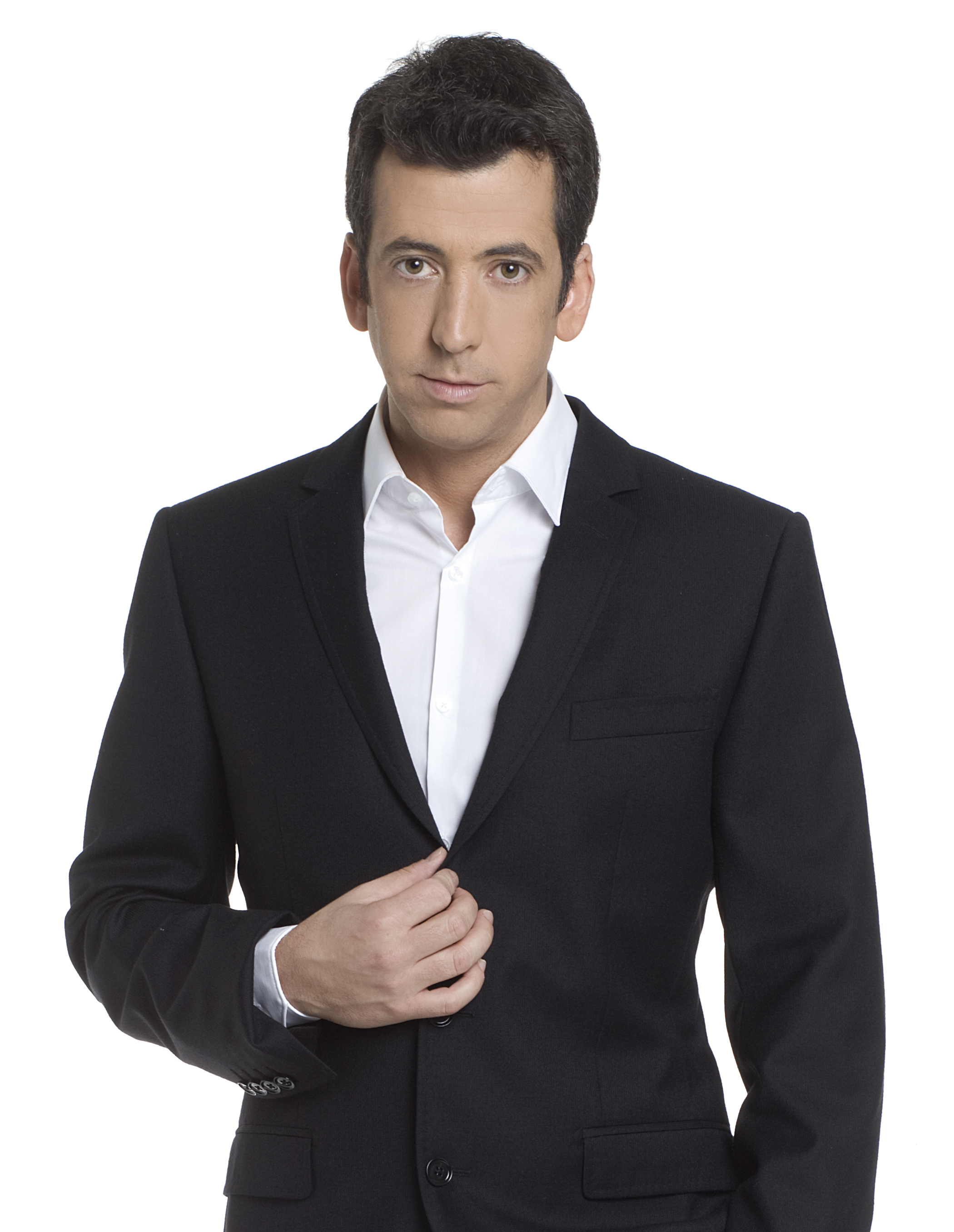 Channel 10 News (Israel) Journalist